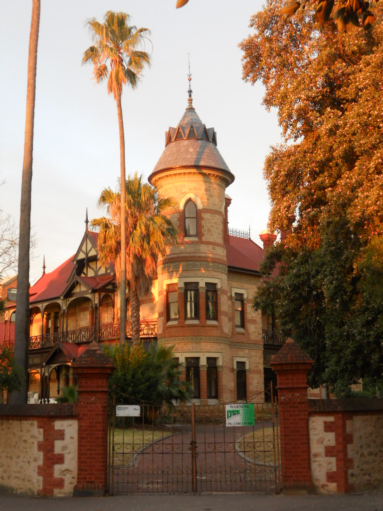 Beautiful Carclew